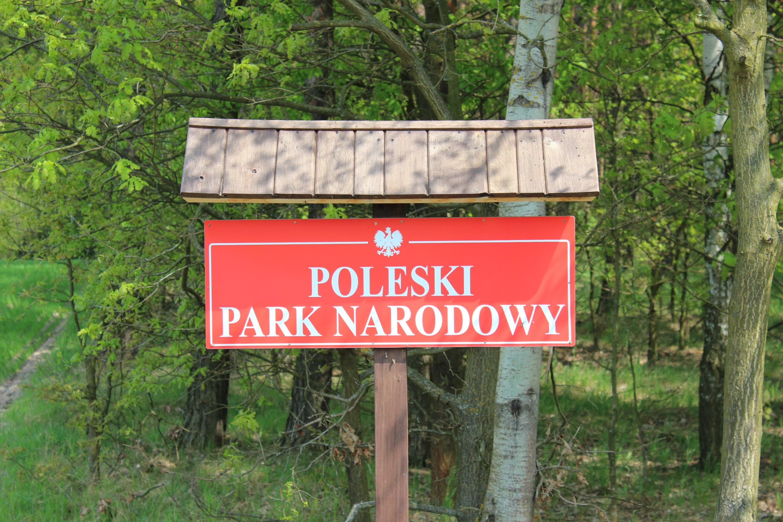 Polesie National Park - "Dąb Dominik" Trail